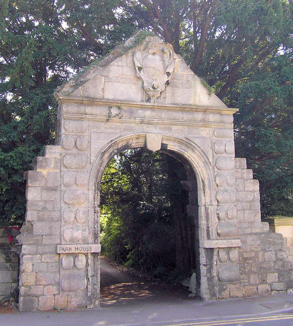 Archway in Station Road, Keynsham Many pieces of old Keynsham Abbey were used in the construction of this archway. It used to be at the entrance to the Tithe Barn or Estate Office, and was moved here after the fire destroyed it in the mid nineteenth century.